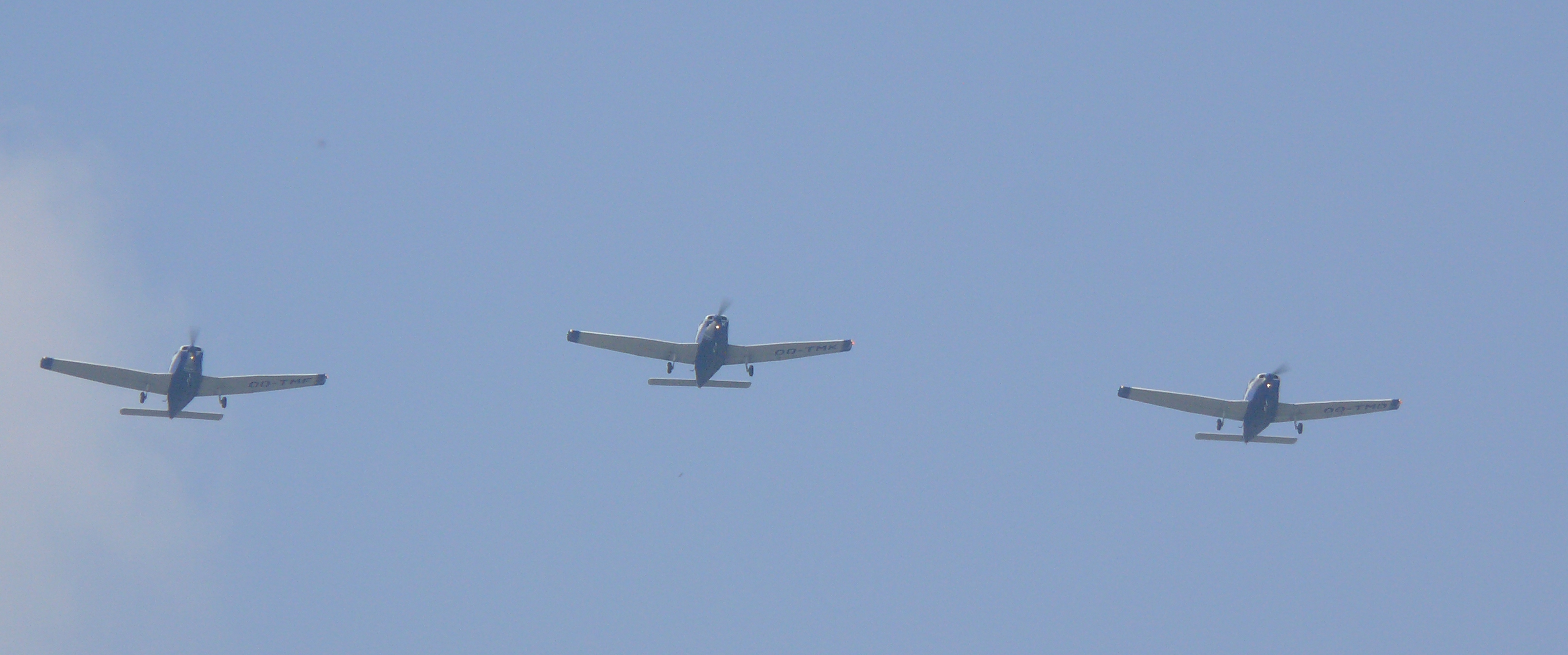 Three Piper P28A-161 Warrior III aircraft, OO-TMF, OO-TMK, OO-TMO, of the Ben Air Flight Academy during a show at the Stampe Fly In 2012.